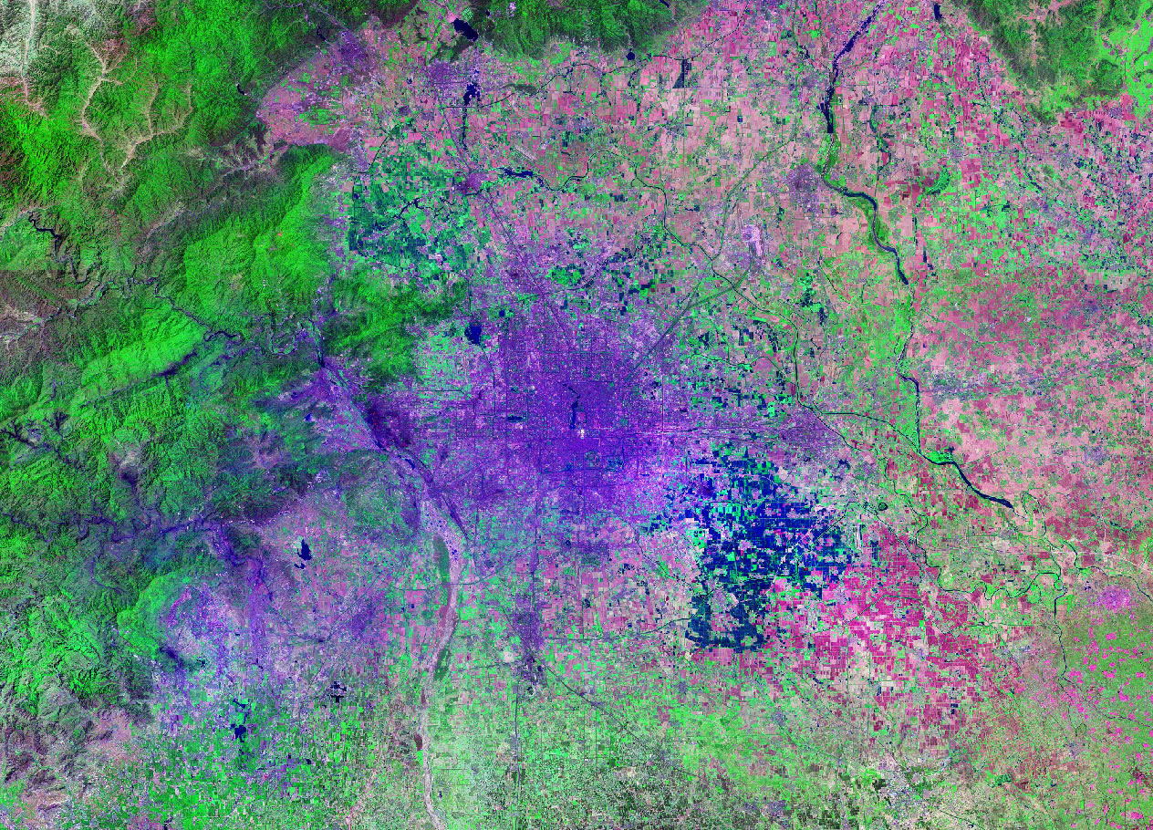 A satellite image of Beijing by NASA's Landsat.